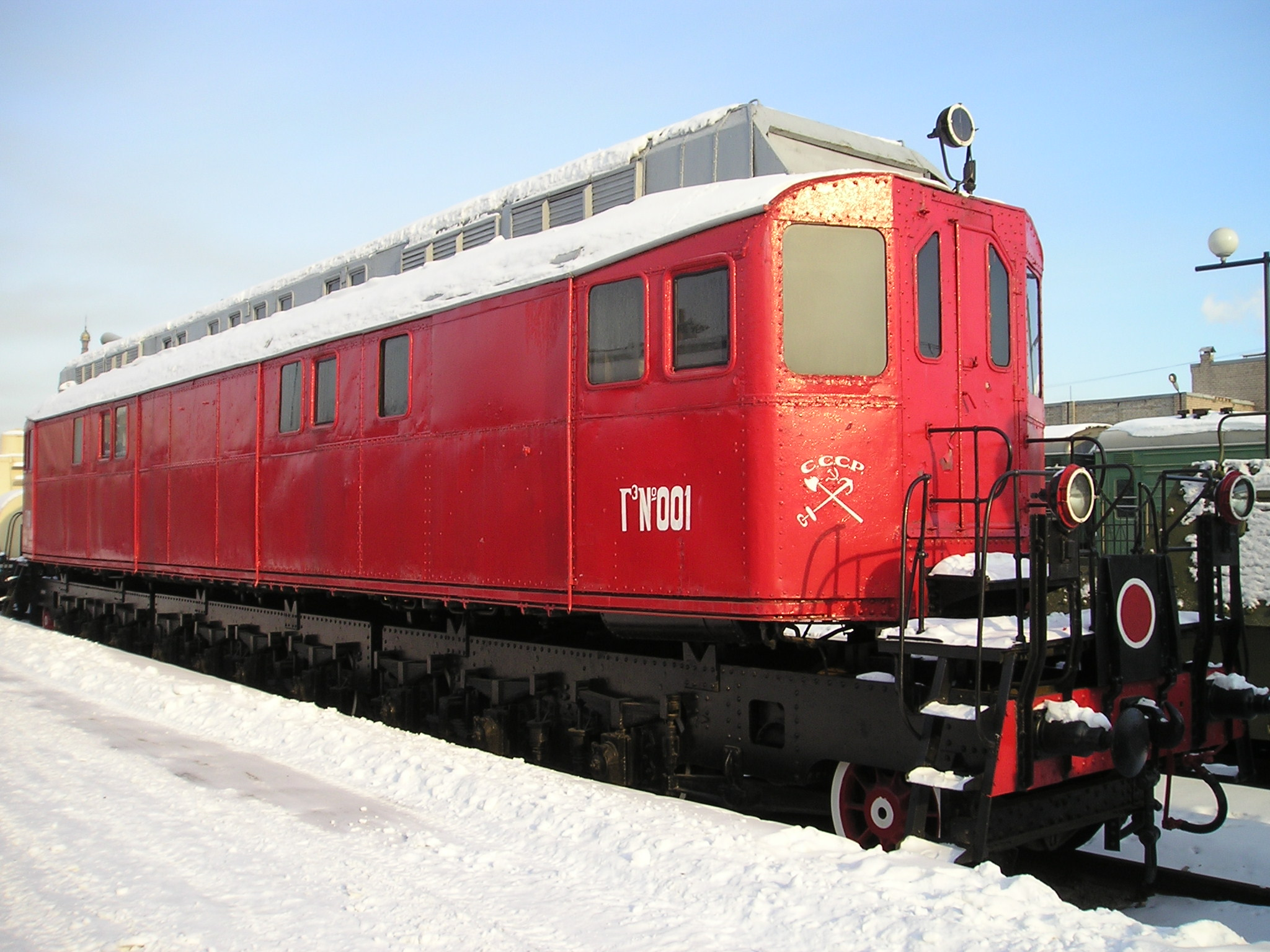 The exhibit of the open-air railway museum in former Varshavsky terminal in Saint-Petersburg, Russia. First Soviet diesel locomotive